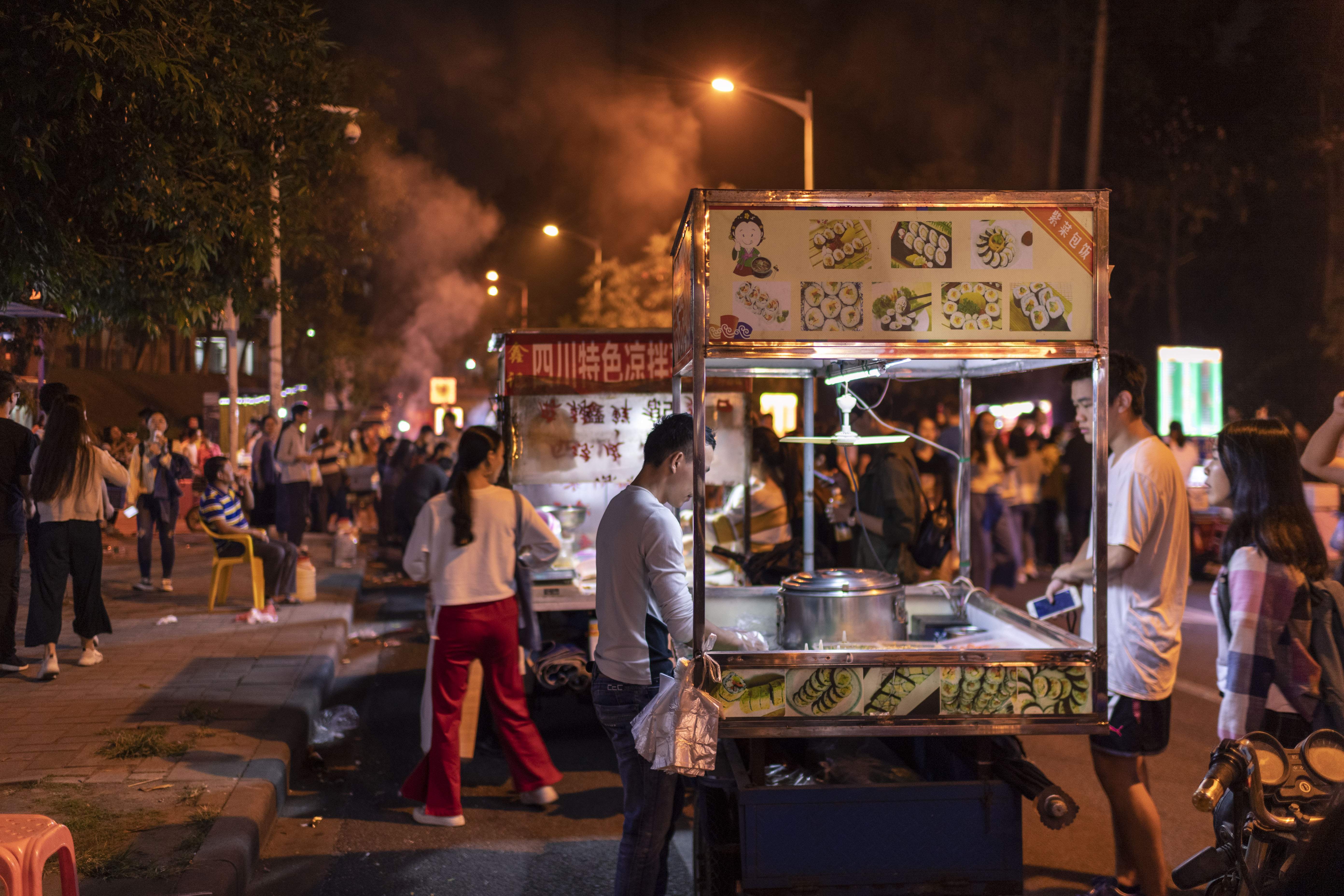 Beigang Night Market in HEMC